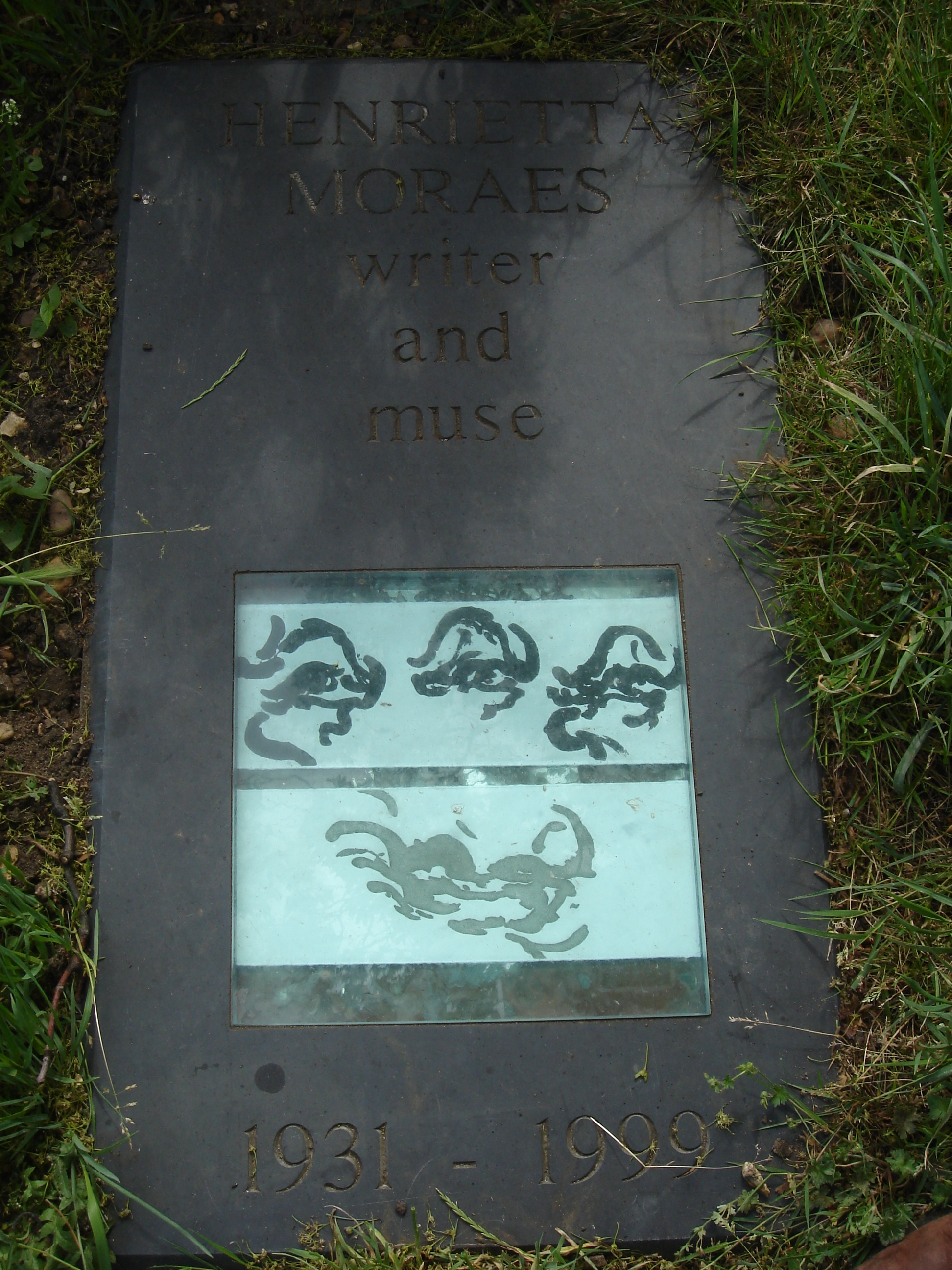 Henrietta Moraes grave in Brompton Cemetery.